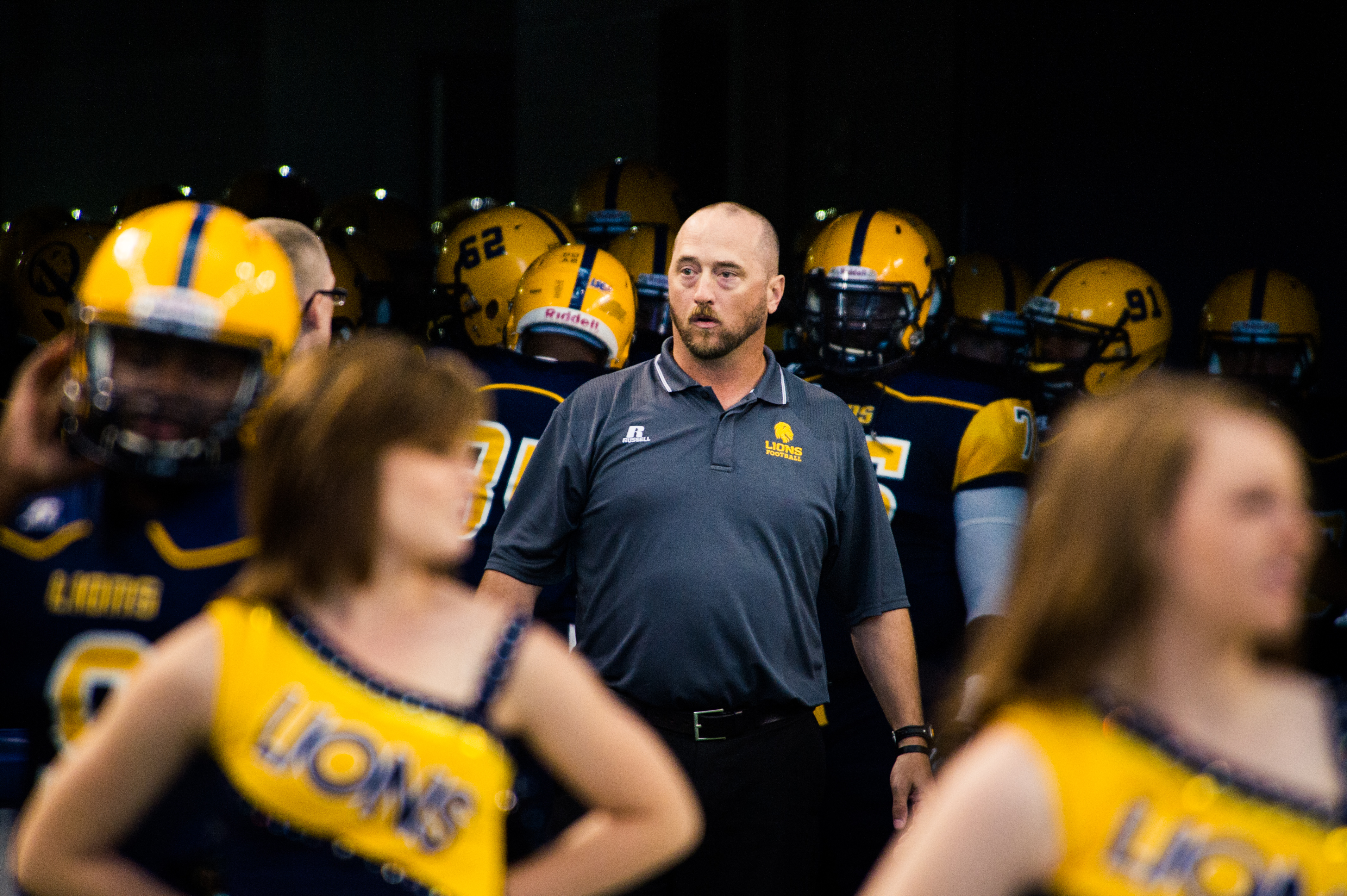 Texas A&M–Commerce football head coach Colby Carthel before the Texas A&M–Kingsville Javelinas vs. Texas A&M–Commerce Lions football game at AT&T Stadium in Arlington on September 20, 2014.